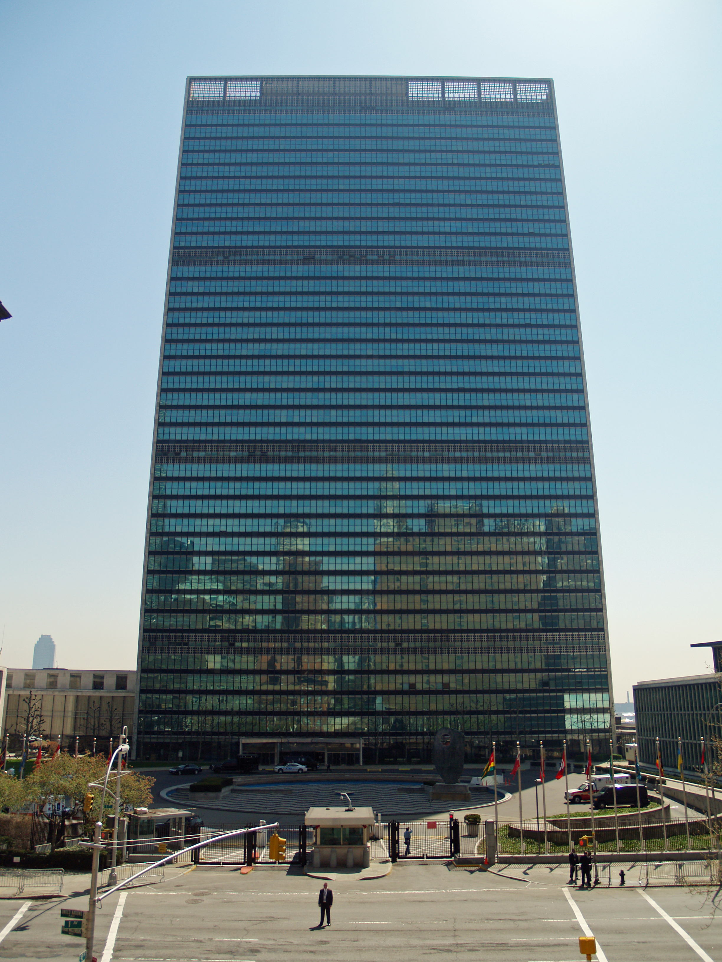 United Nations headquarters in New York City, on the day Westboro Baptist Church protested Pope Benedict's address to the UN General Assembly.